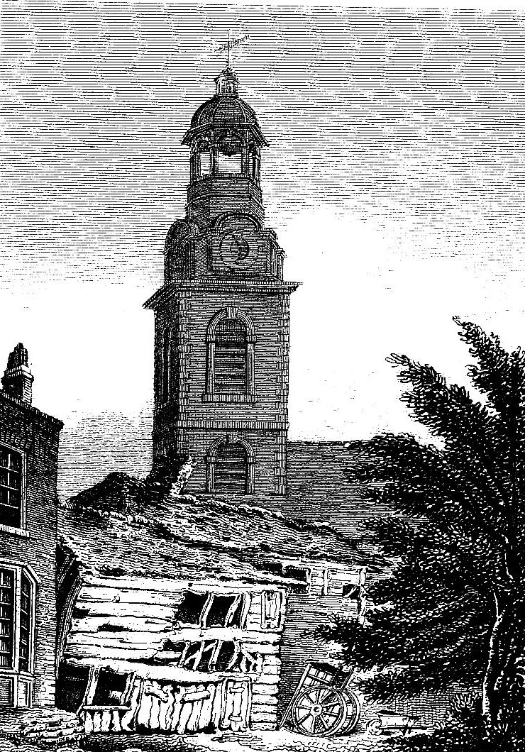 my own scan of my own print of Christ Ch in 1817